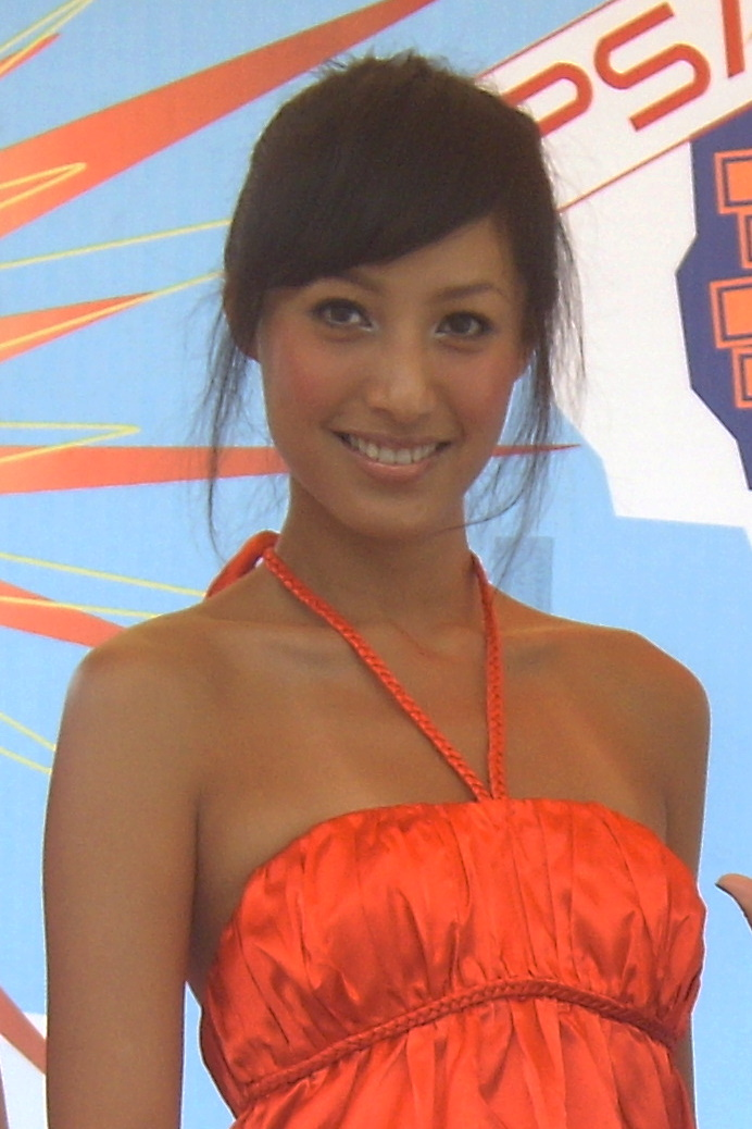 PSA supports T2009 Event: Coco Chiang.